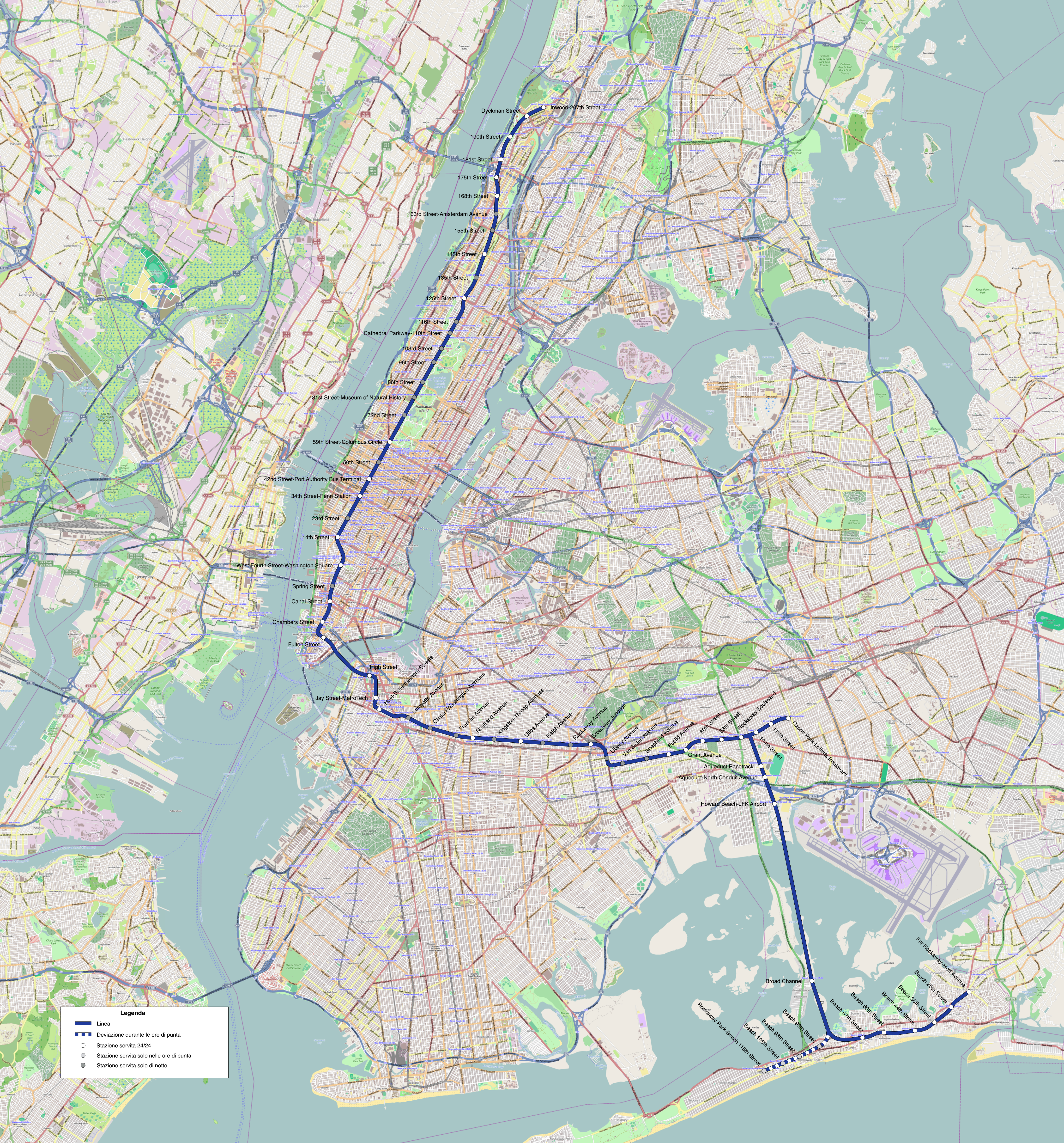 New York City Subway A service map